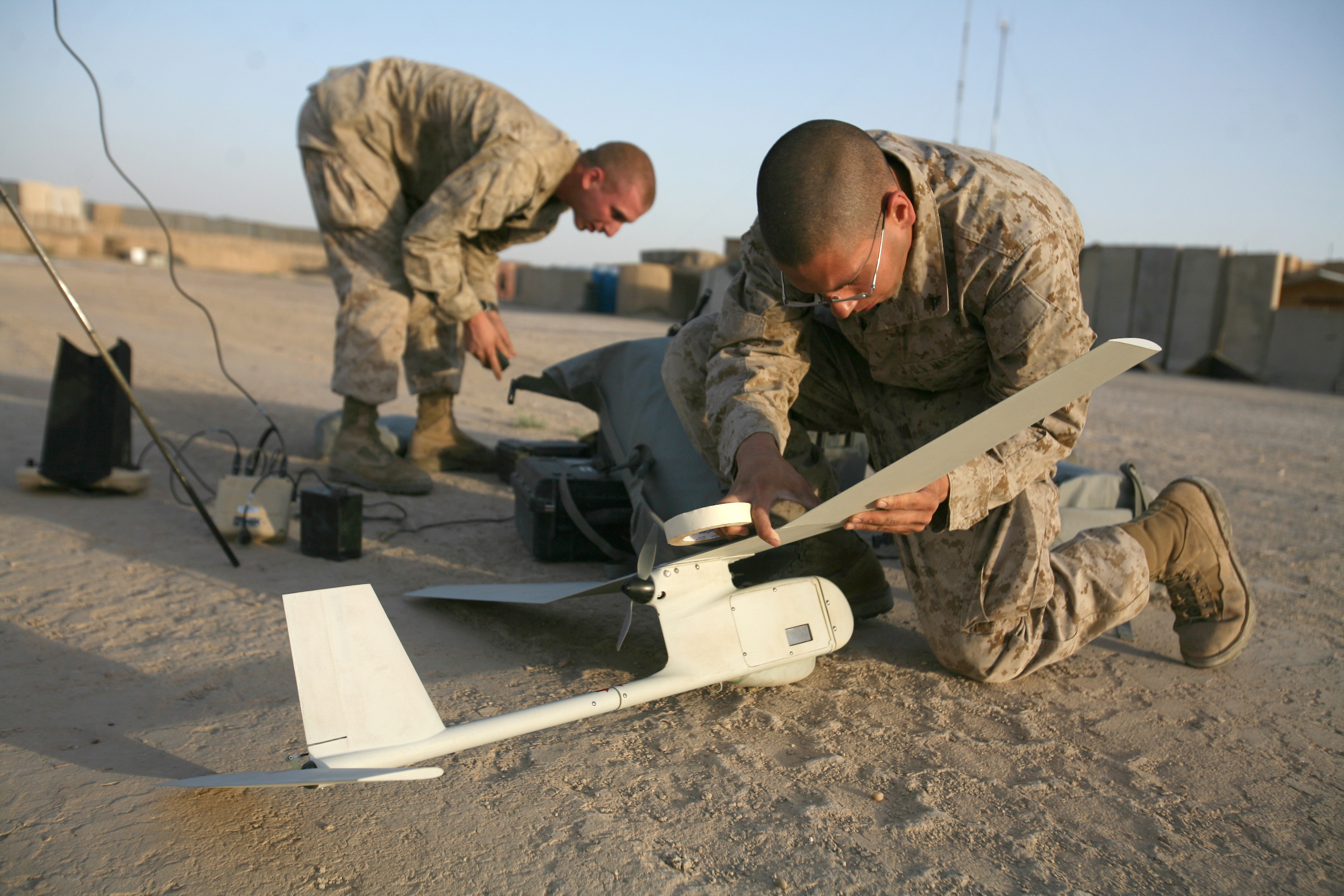 U.S. Marine Corps Lance Cpl. Donald Glover, with Alpha Company, 1st Battalion, 7th Marine Regiment, assembles a RQ-11B Raven unmanned aerial vehicle at Combat Outpost Viking, Iraq, on June 2, 2009. Marines are test flying the aircraft to obtain company-level surveillance information and intelligence.